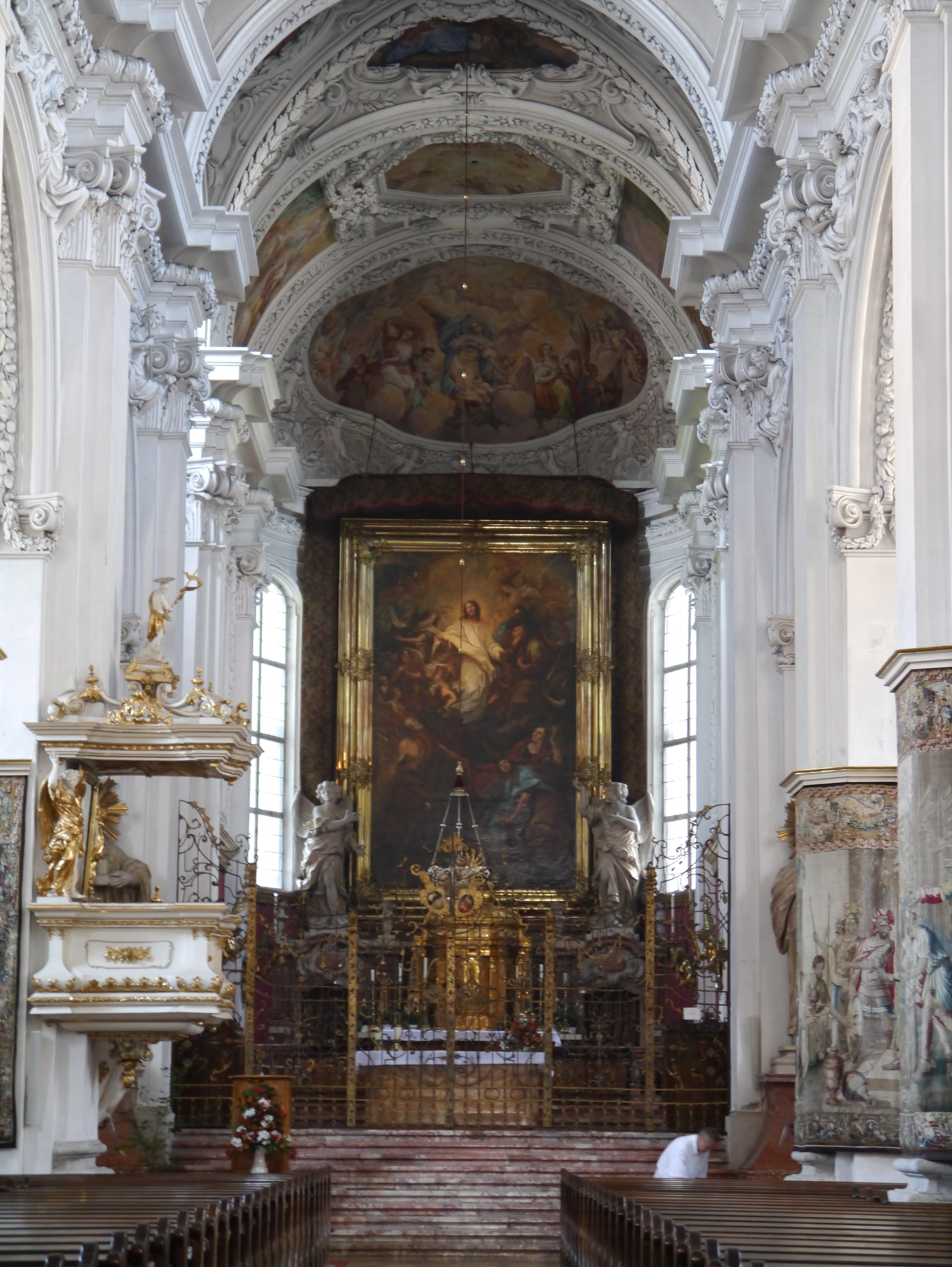 Choir of Kremsmünster Abbey church, Kremsmünster, Upper Austria